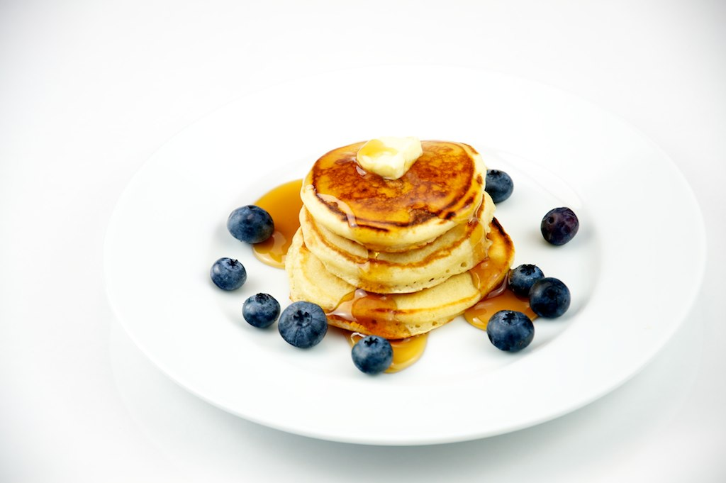 Silver Dollar Pancakes with Blueberries on a White Plate